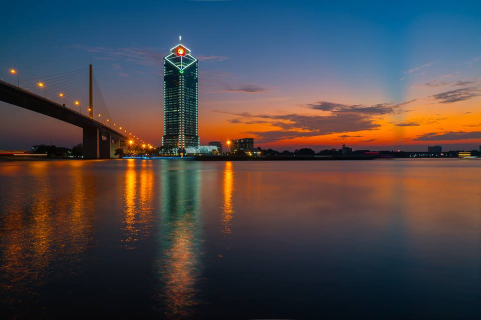 KBank's Head Office on the bank of Chaopraya river.